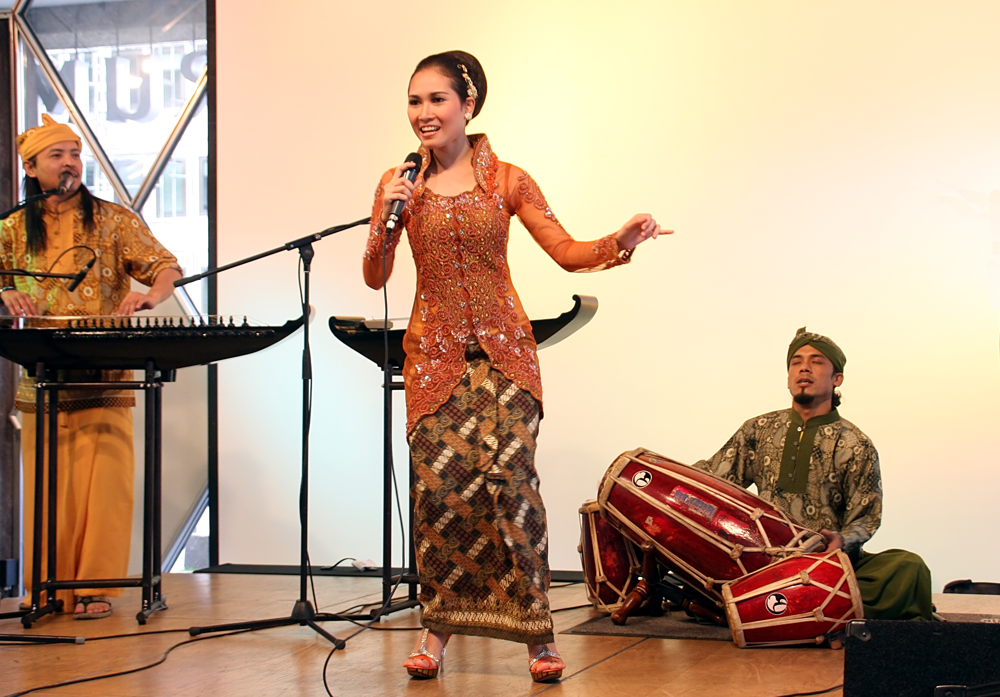 The SambaSunda quintett from Java, Indonesia, performs in Cologne